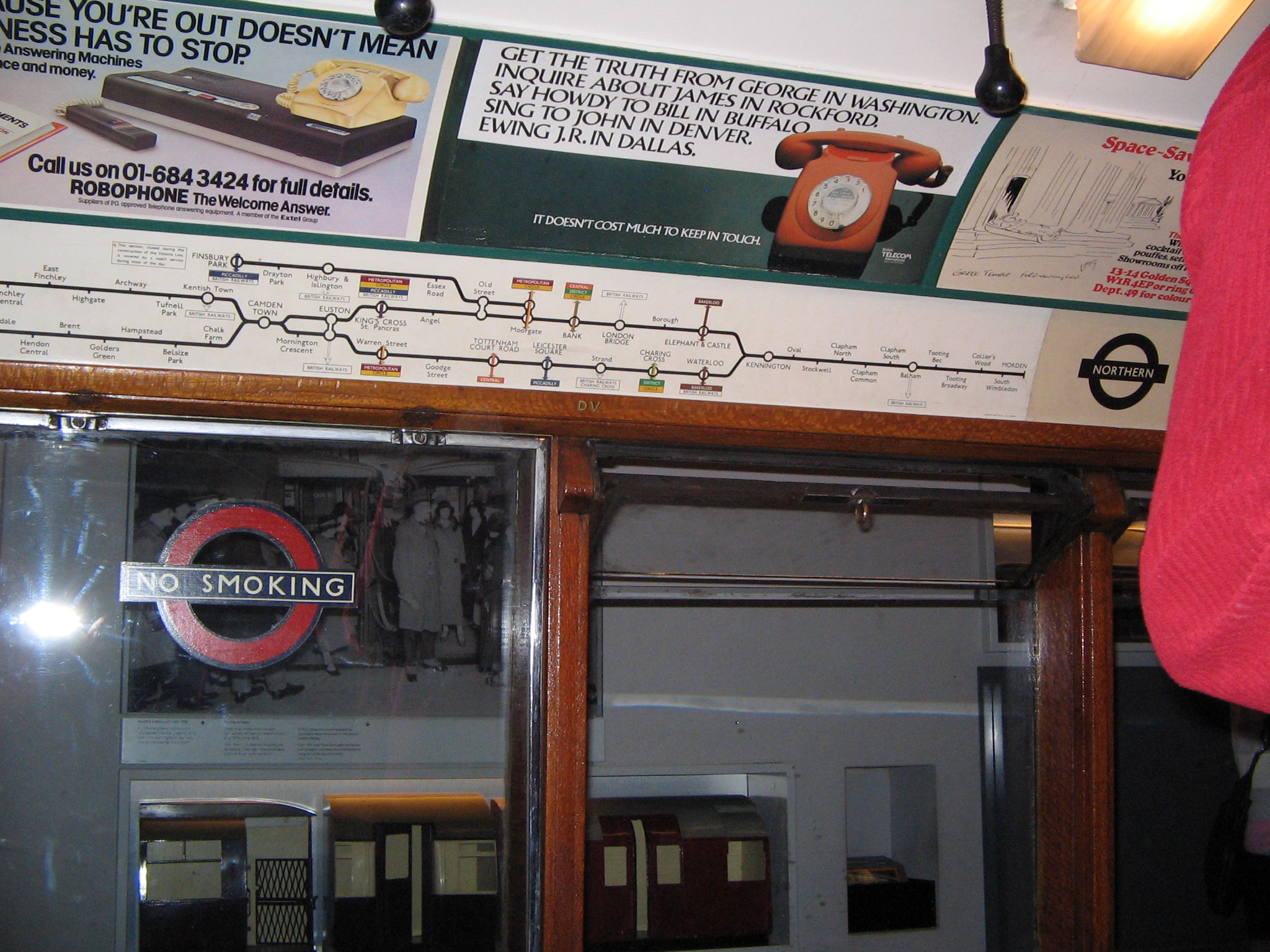 The interior of a Northern line carriage, an exhibit at the museum, showing a mid-1960s route diagram.